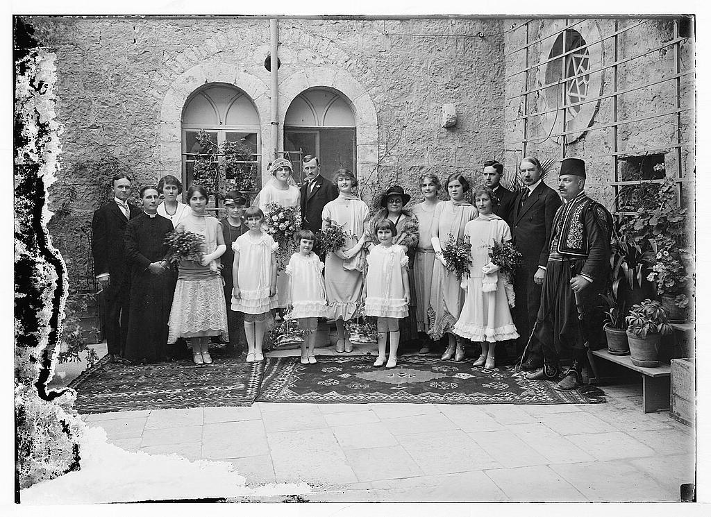 Wedding of Eric and Edith Matson. Image probably taken in the courtyard of the American Colony building, Jerusalem. Back row (left to right): Lewis Larsson (Swedish consul), unidentified clergyman, Edith Larsson, Oscar Heizer's daughter? (holding bouquet), Lily Yantiss, Edith Matson, Eric Matson, Tanetta Vester, Mrs. Heizer, Anna Grace Vester, Heizer's daughter, Lars Lind, Oscar Heizer (American Consul), and Heizer's kavass. Front row: Effie Yantiss (in front of Lars Lind), Frieda Vester, Dorothy Yantiss, and Louise Vester. (Source: Annotated copy of photograph in P&P Matson Collection file).